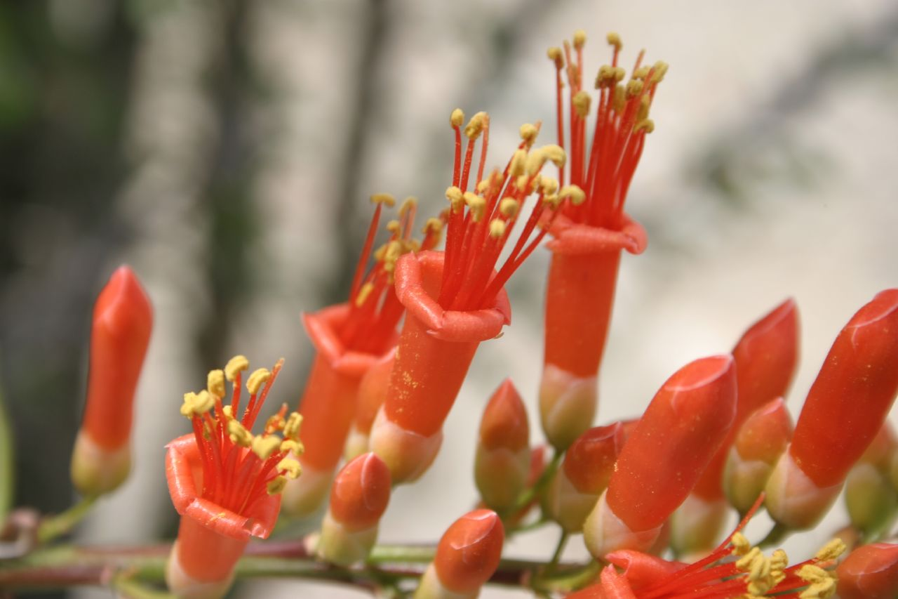 Fouquieria splendens, Coachella Valley, Riverside County, California